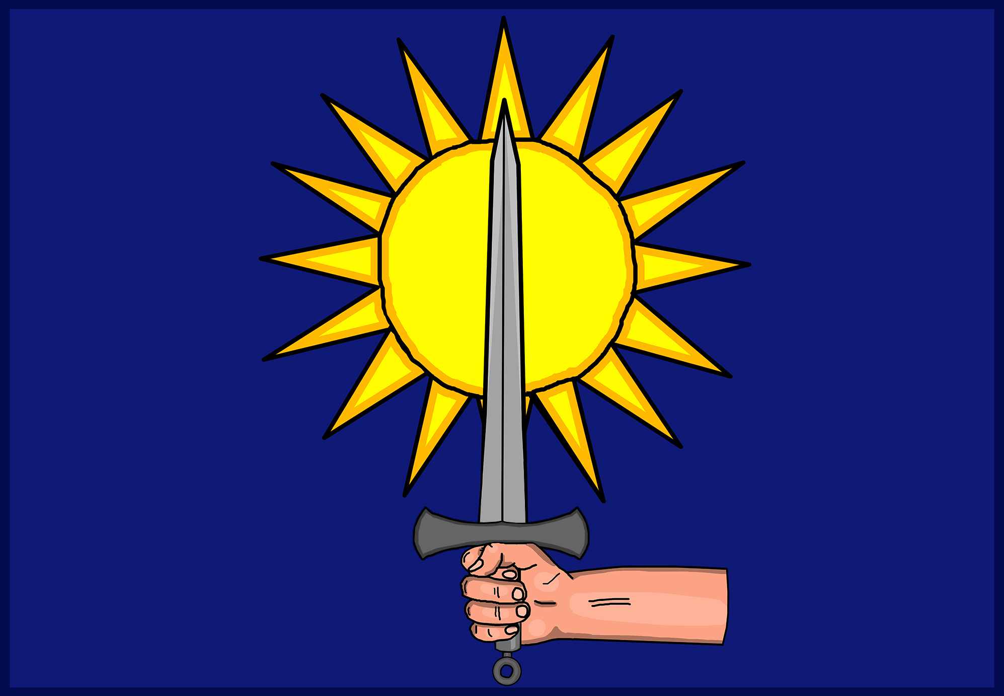 Banner used by Brian Boru at Clontarf. [1] "King Brian Boru’s banner is described different in two sources. One design states that his banner was blue with an arm holding a sword along with a sun. The second design is the famous three lions. The first is probably correct as shall be outlined later."